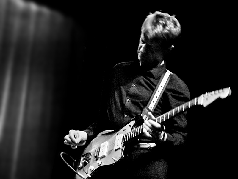 Nels Cline in Aarhus Danmark 2014 playing with the BB&C band, Tim Berne (s), Jim Black (d)